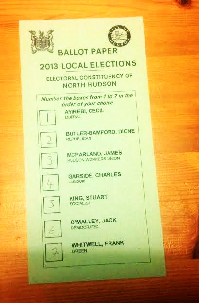 A ballot paper for a local election showing the donkey vote.